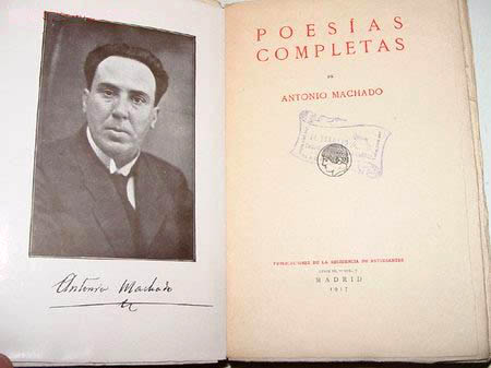 Title pages of Poesías completas, by Antonio Machado (1875 - 1939).